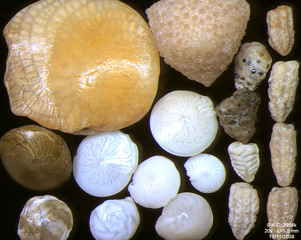 Foraminifera in the Indian Ocean, Southeast Coast of Bali. Field width = 5.5 mm.